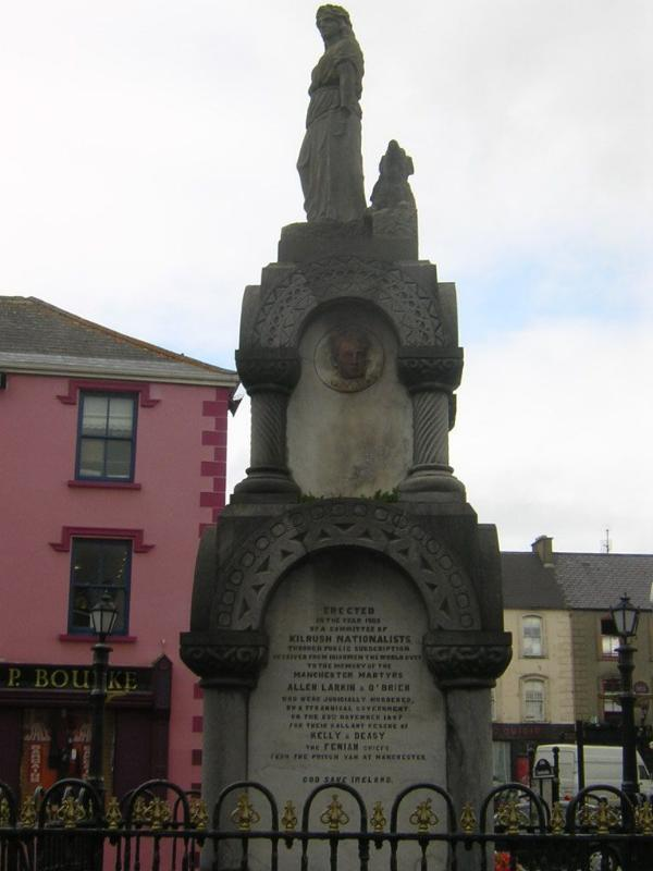 me.